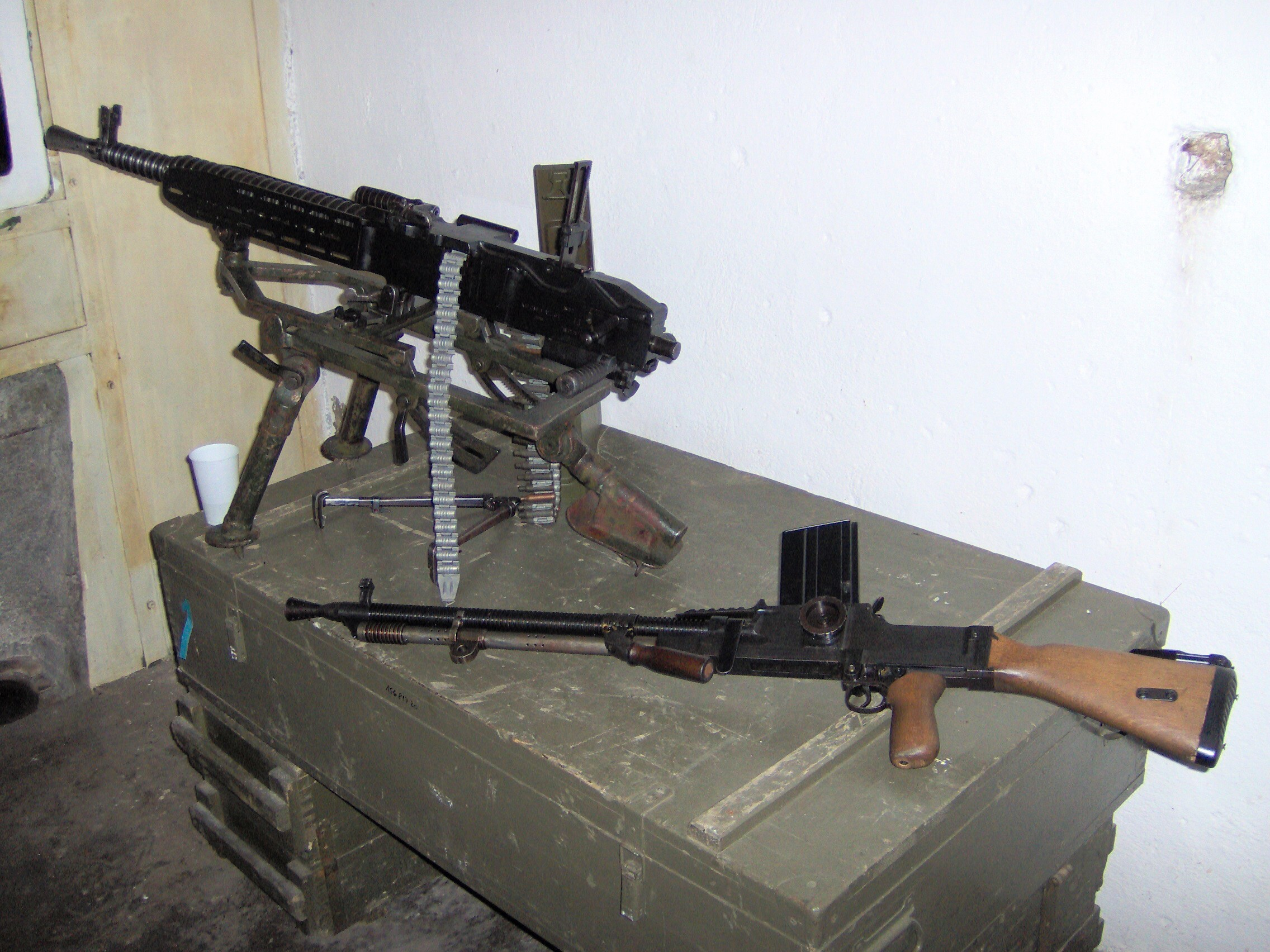 MJ-S 4 Zatáčka infantry casemate, Znojmo District, Czech Republic